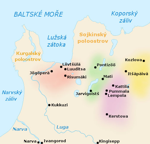 Approximate distribution of Votic language with denotation of its dialects except Kreevin dialect. Western dialect (Vaipooli, Hill - Matši, Valley - Orko) Eastern dialect (Kabrio - Koporje) Kukkuzi dialect (Kukkuzi - Kurovitsy)